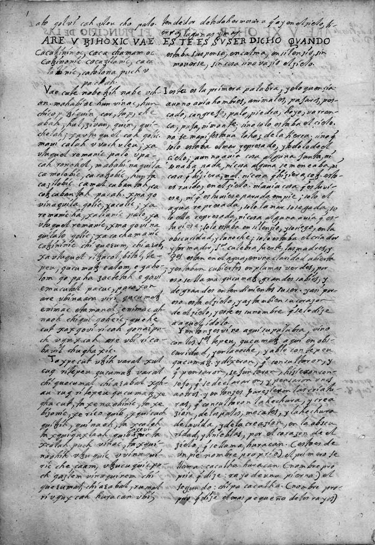 Title page of oldest known Popol Vuh manuscript